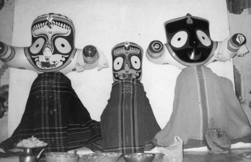 Lord Jagannath, Lord Balabhadra and Goddess Subhadra